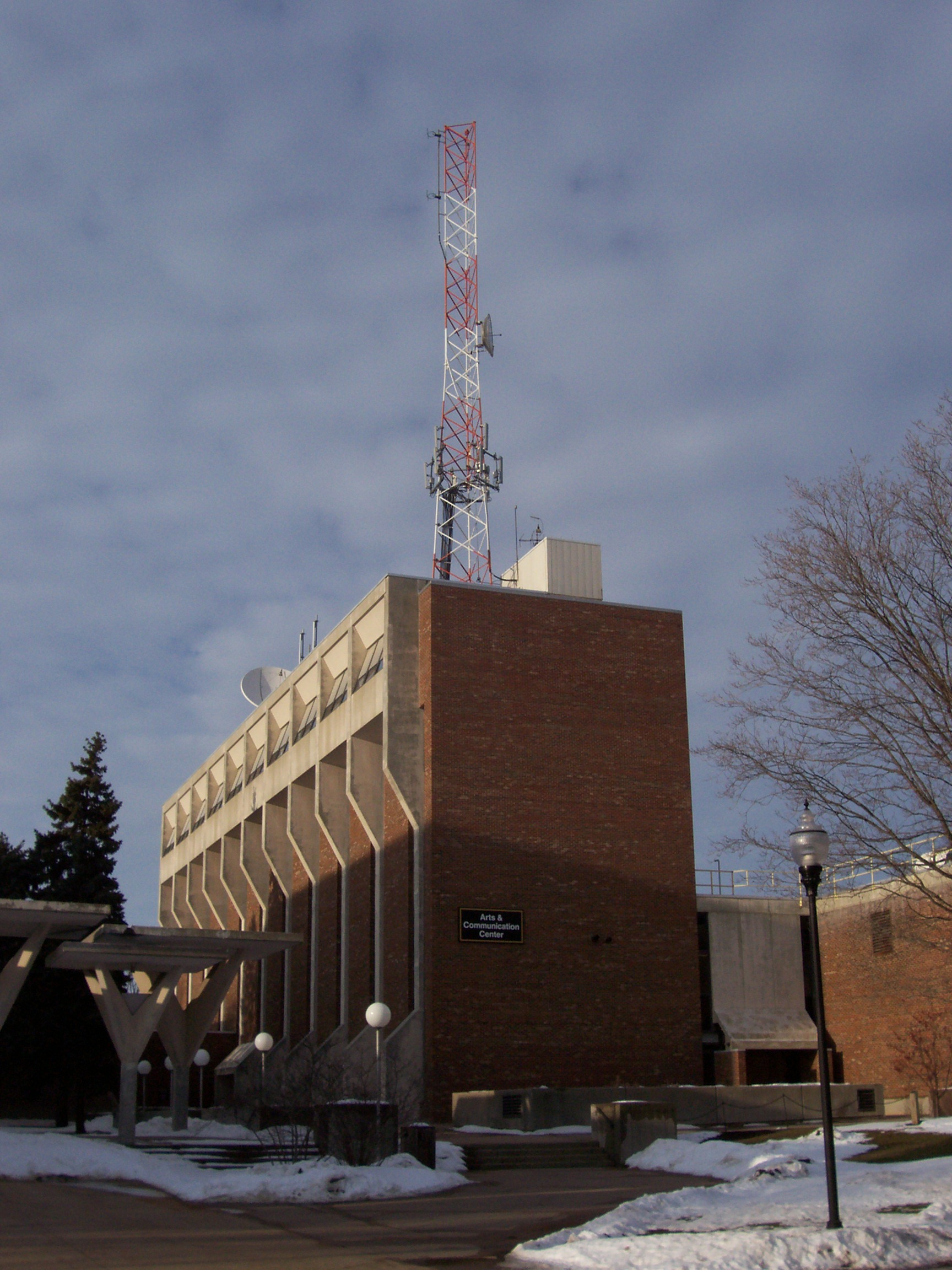 The Arts & Communications building at the University of Wisconsin-Oshkosh. University radio station WRST studios are inside the building.